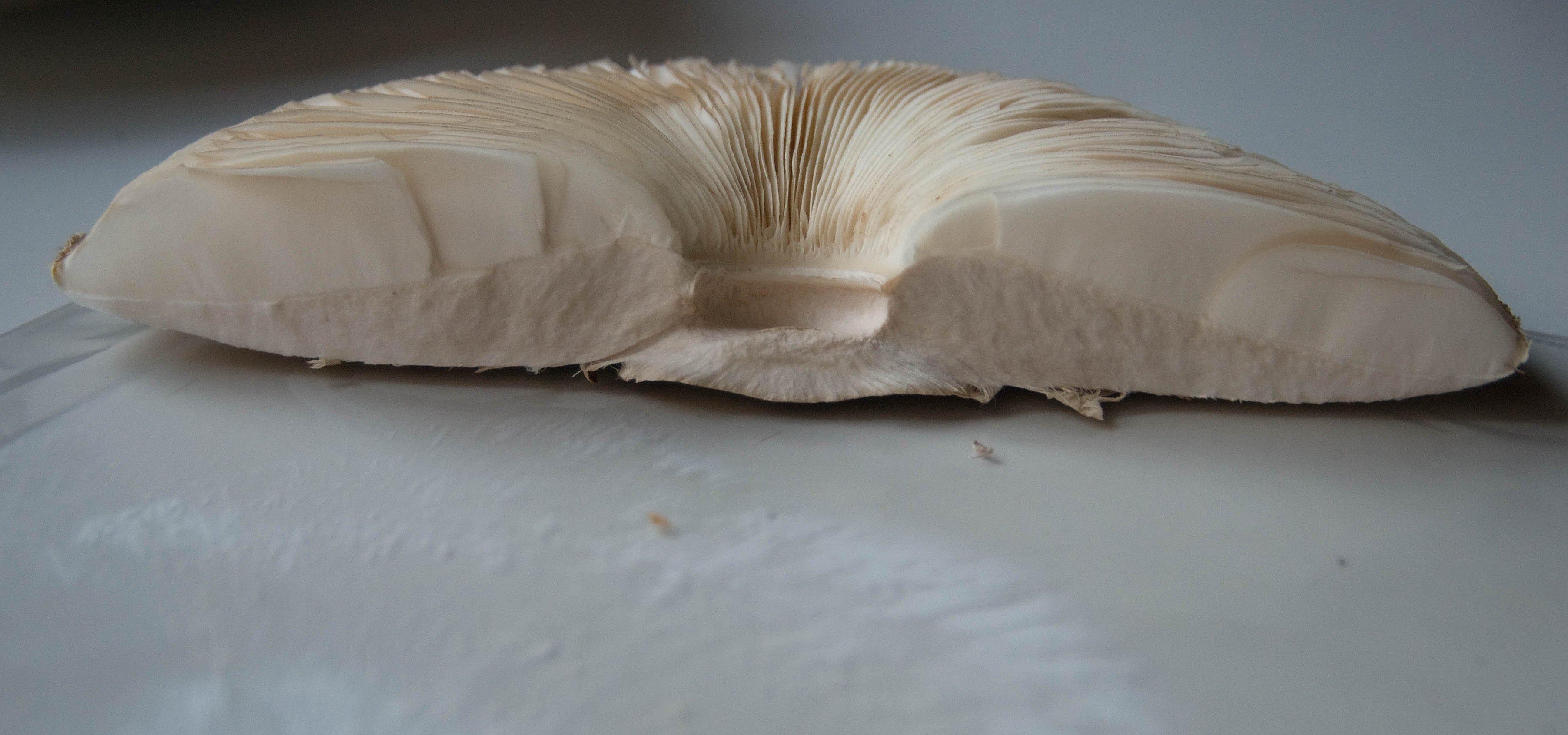 Section of a Macrolepiota rhacodes, with white spore print on foil in foreground